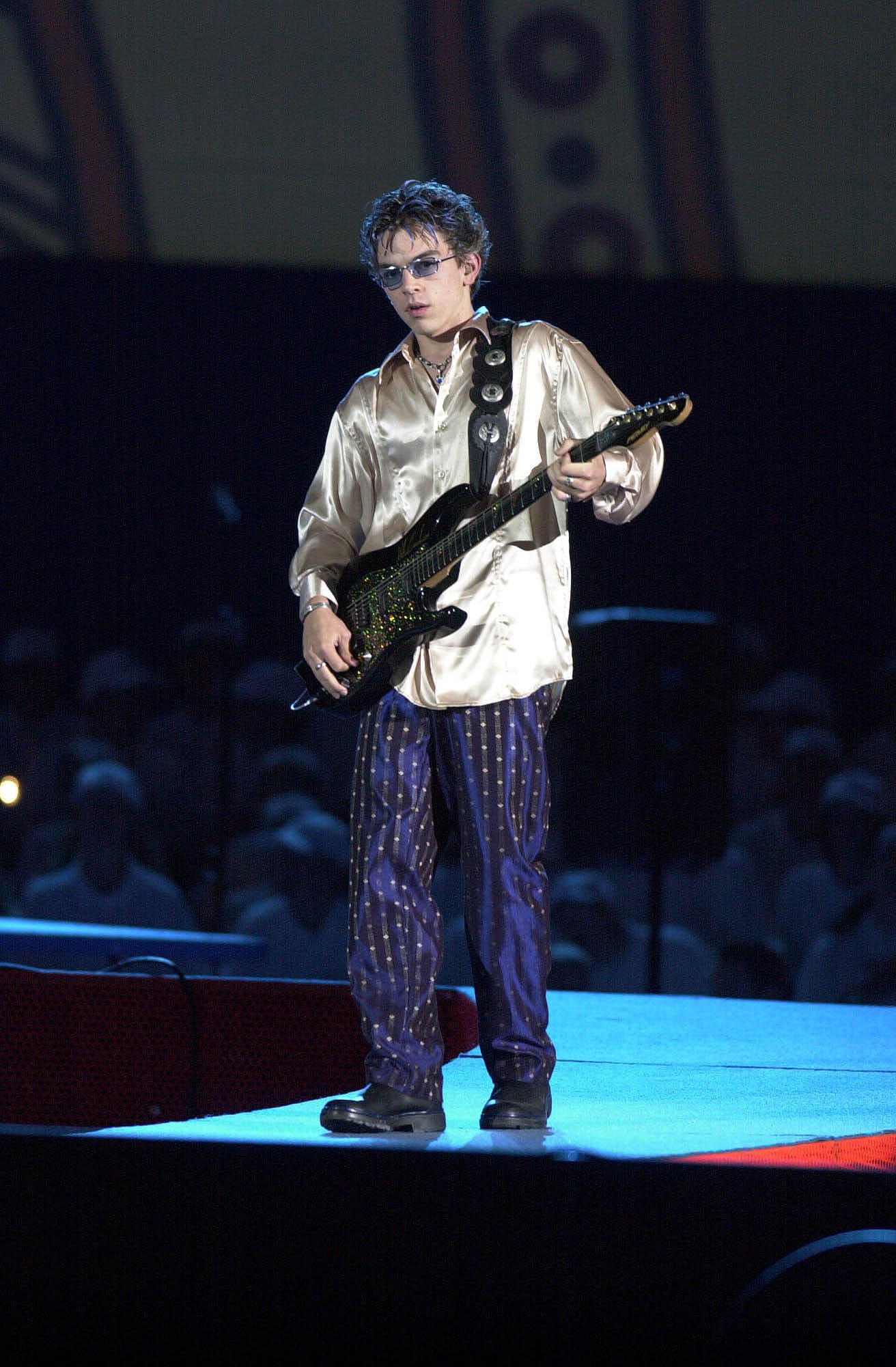 Australian artist Nathan Cavaleri performs onstage with his guitar at the Opening Ceremony of the 2000 Sydney Paralympic Games